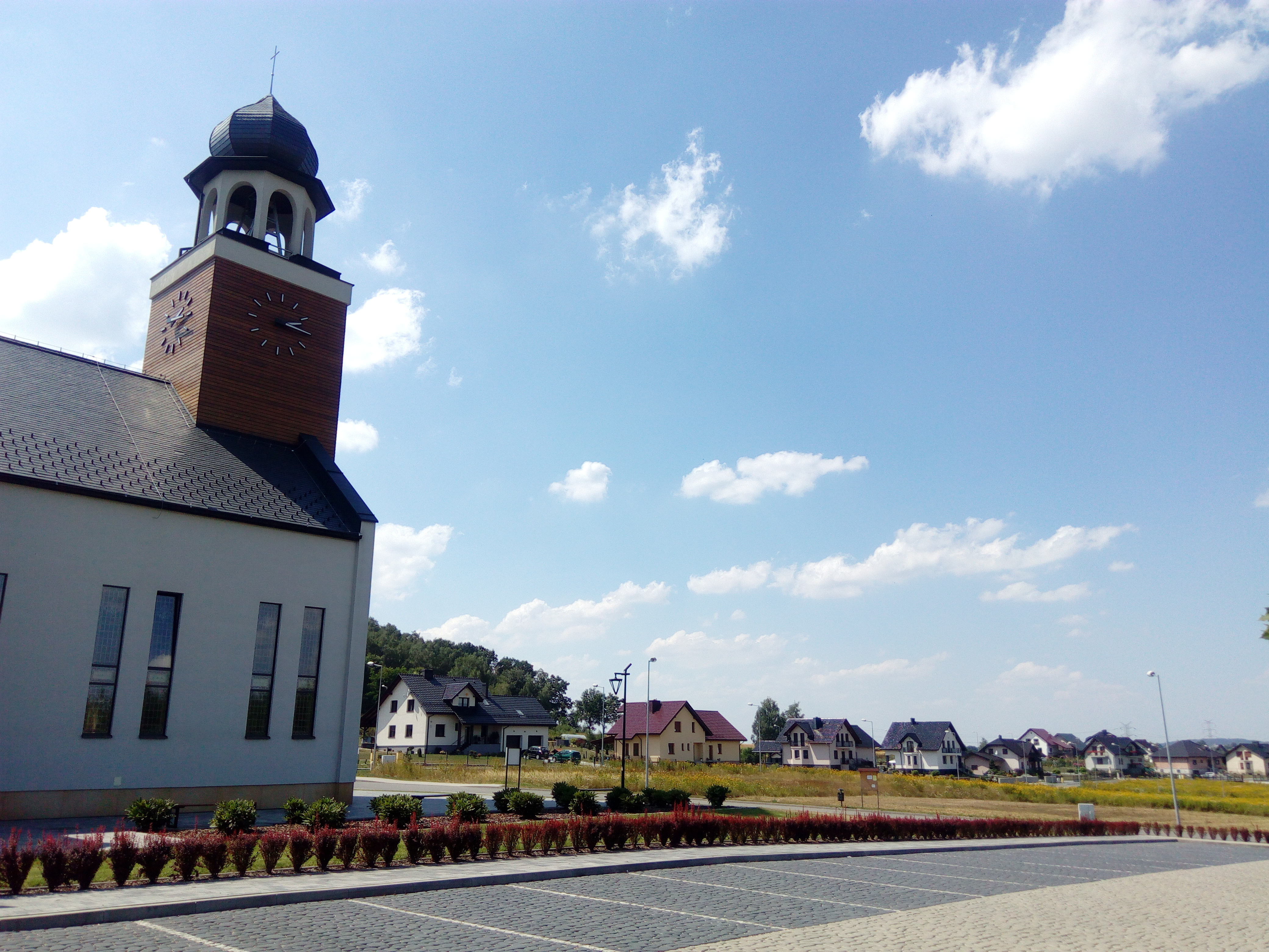 Saint Joseph church and central square in the renewed village of Nieboczowy near Racibórz, Upper Silesia.